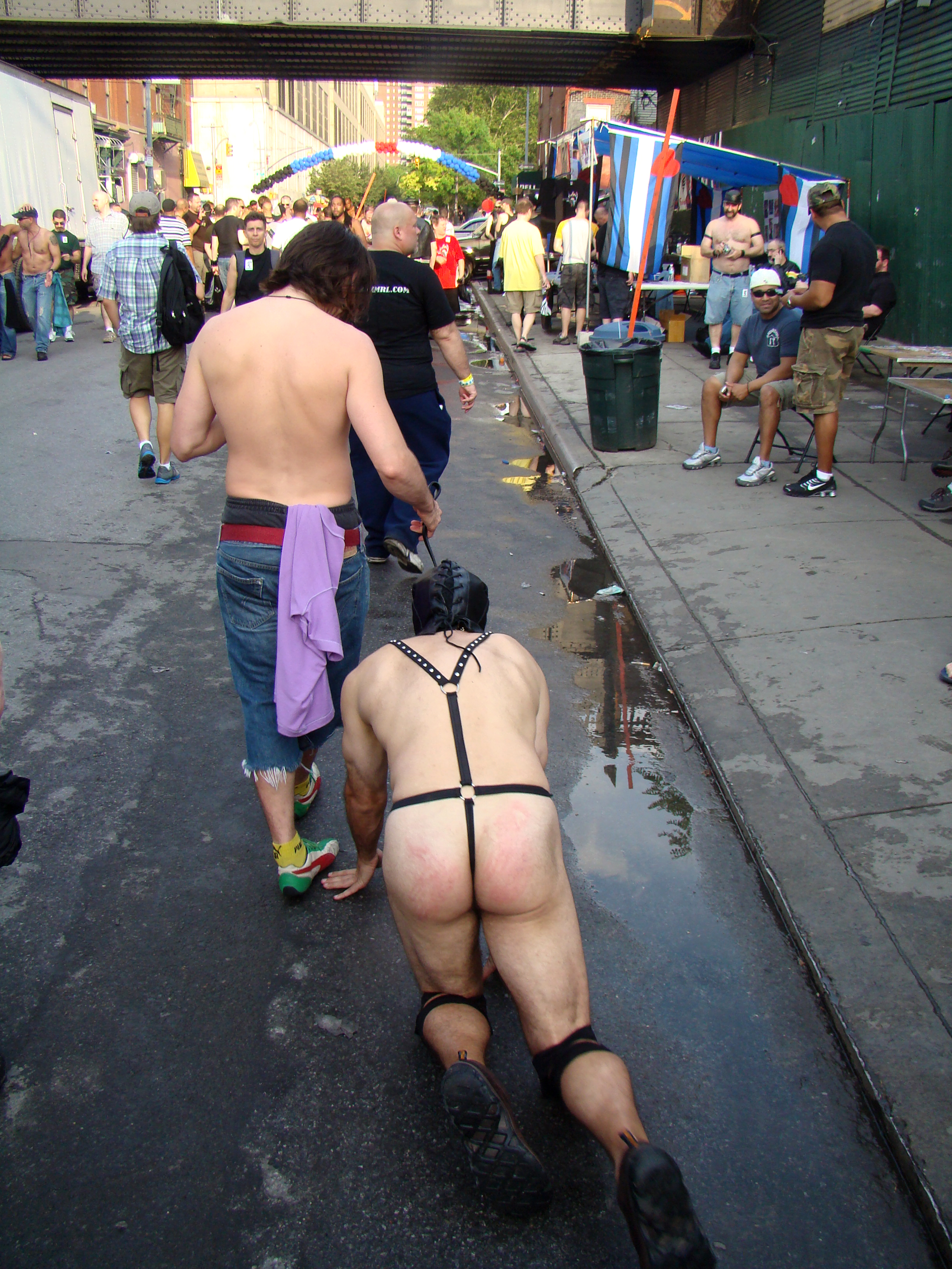 walking the dog